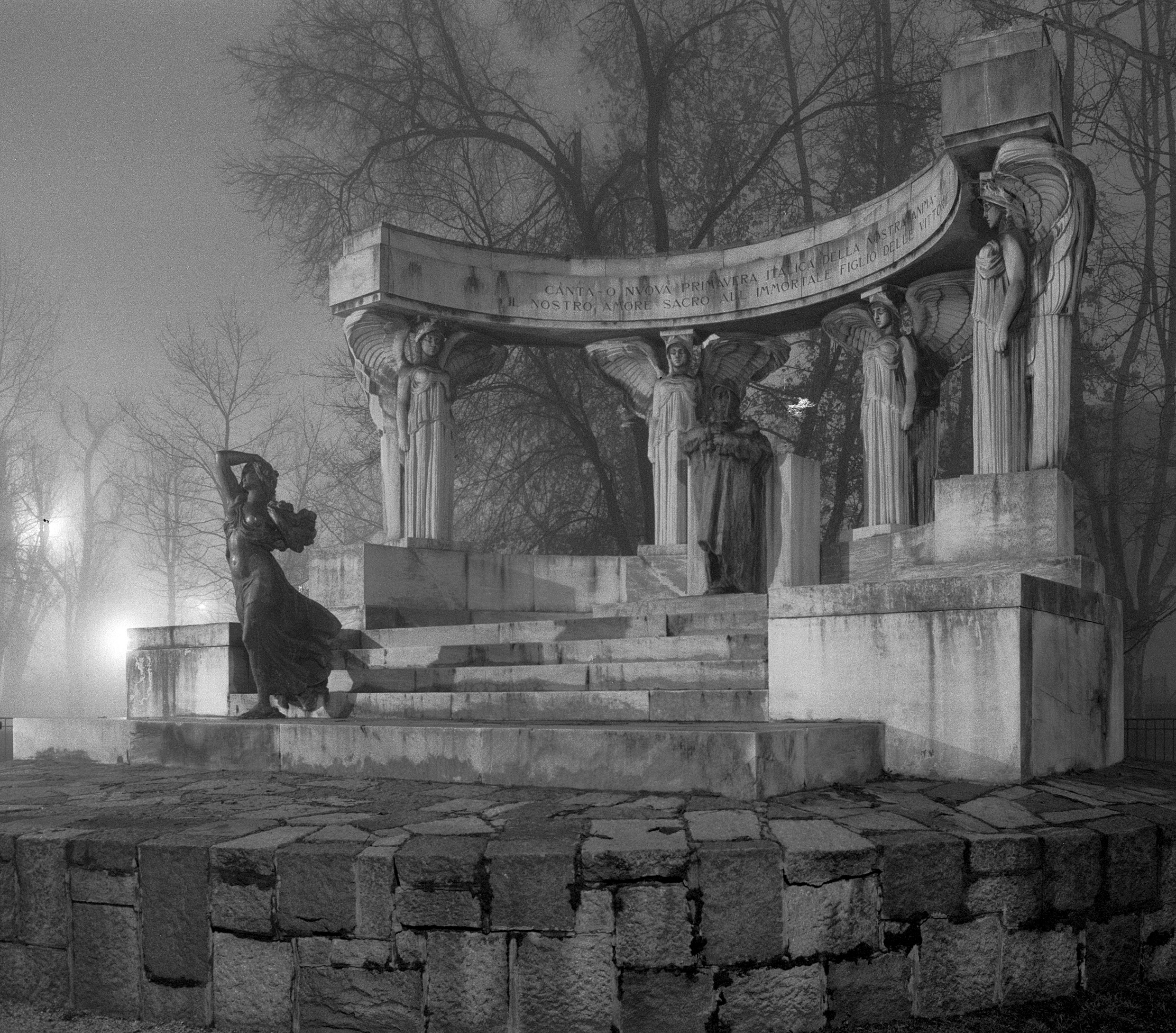 The 1925 war memorial at Casale Monferrato.